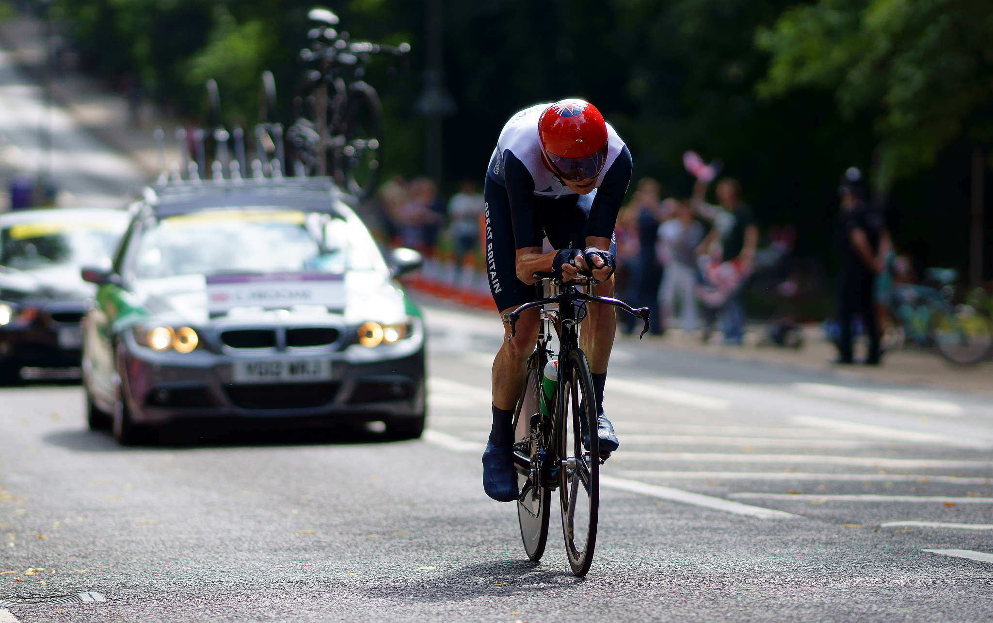 Chris Froome, of Team GB, races past Claremont Gardens, south of Esher, during the Olympic Games 2012 time trial.